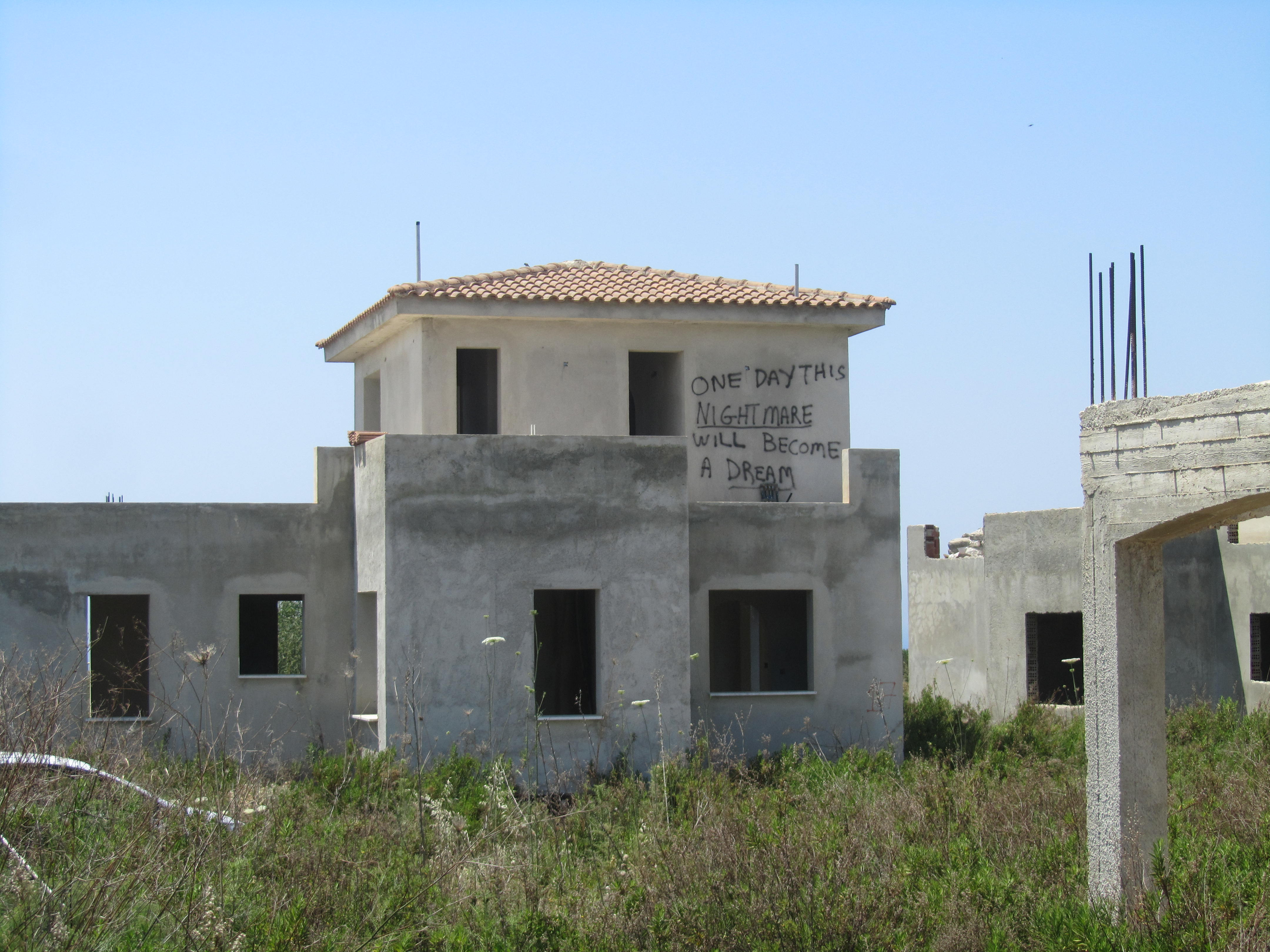 Abandoned construction project, Cyprus